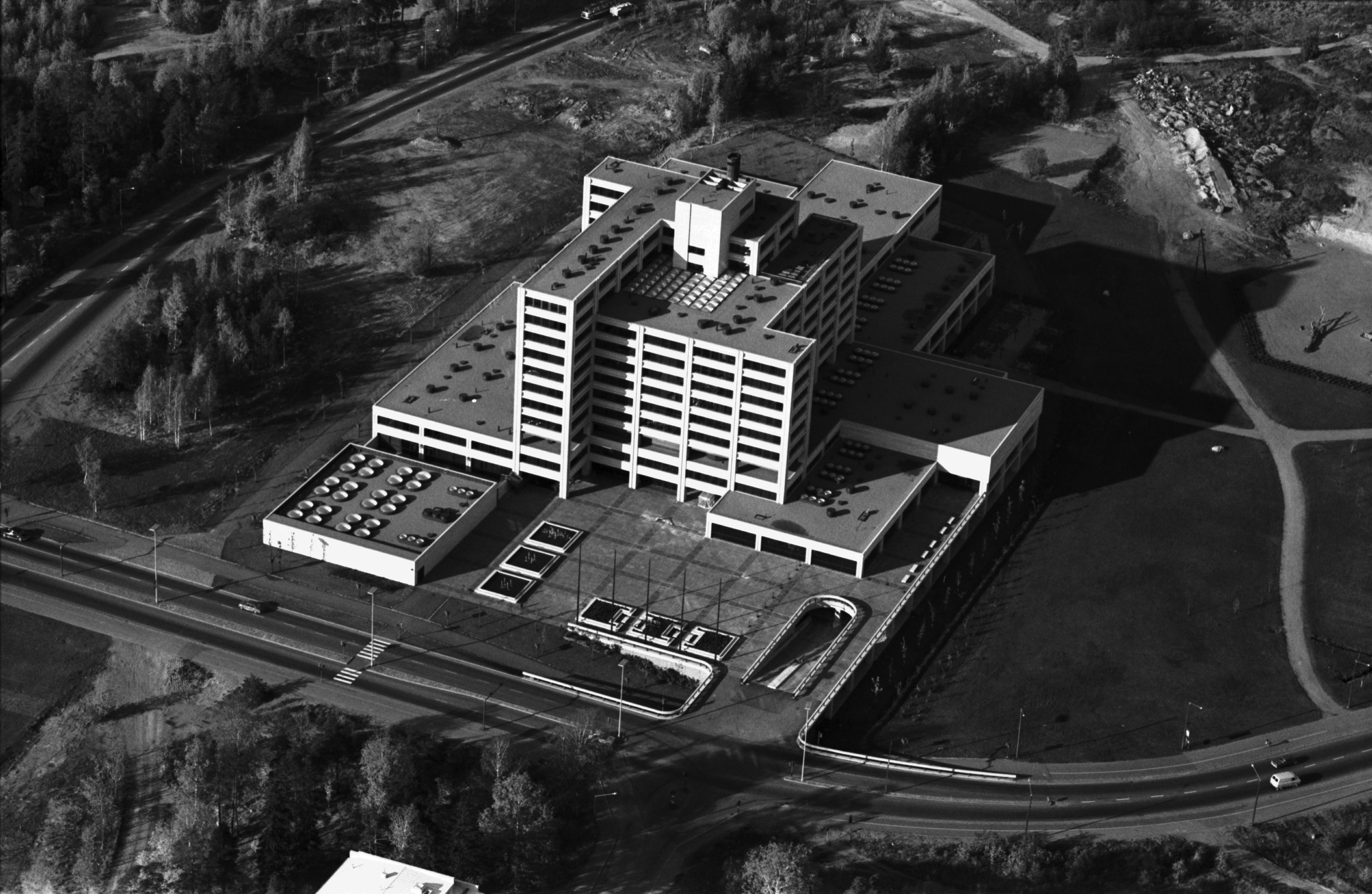 Aerial photograph of the headquarters of Pohjola Insurance Group in Niemenmäki, Helsinki, Finland. Partially demolished in 2018.